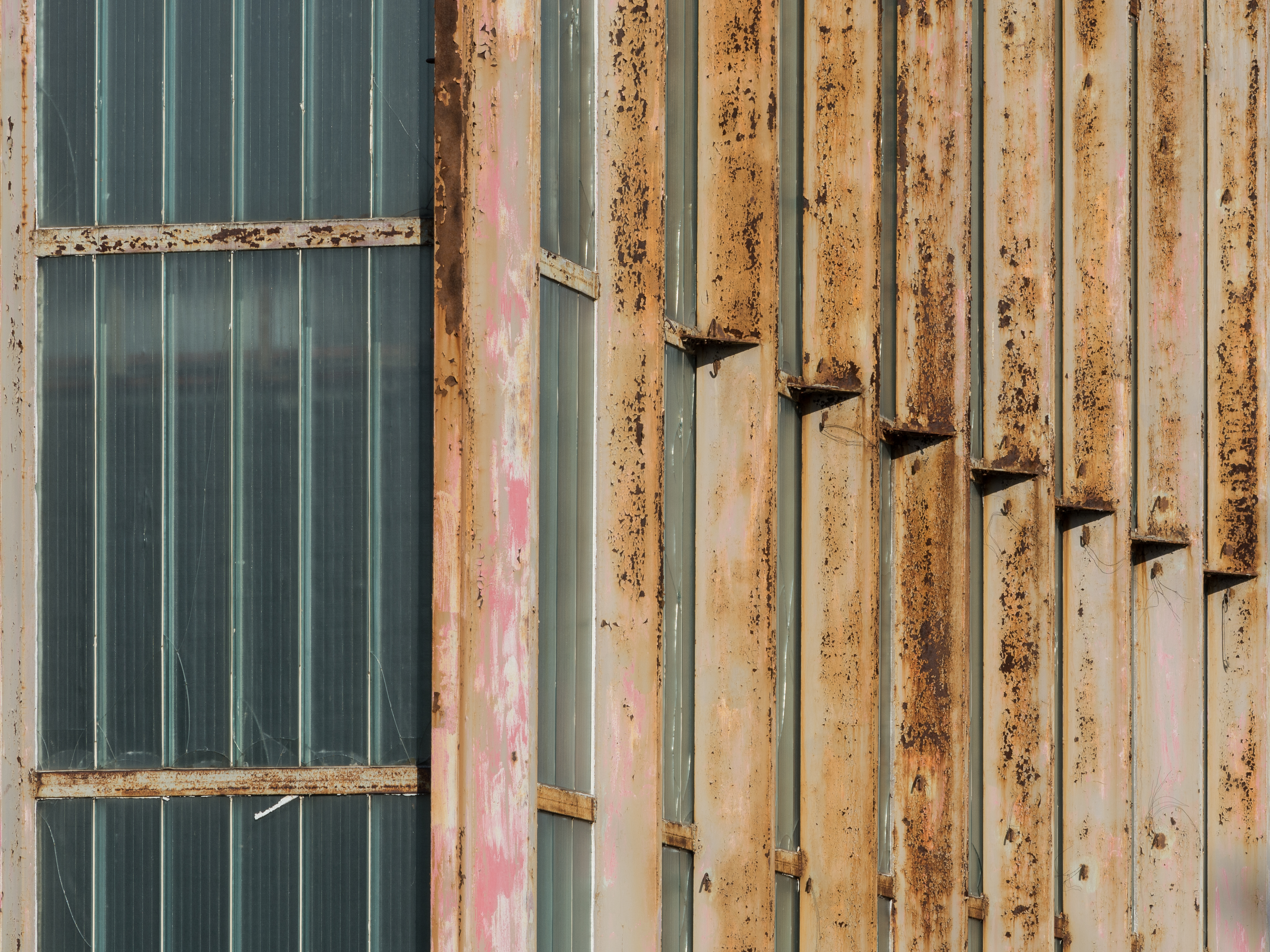 Detail of former exhibition hall Hyparschale in Magdeburg. This is a photograph of an architectural monument.It is on the list of cultural monuments of Magdeburg